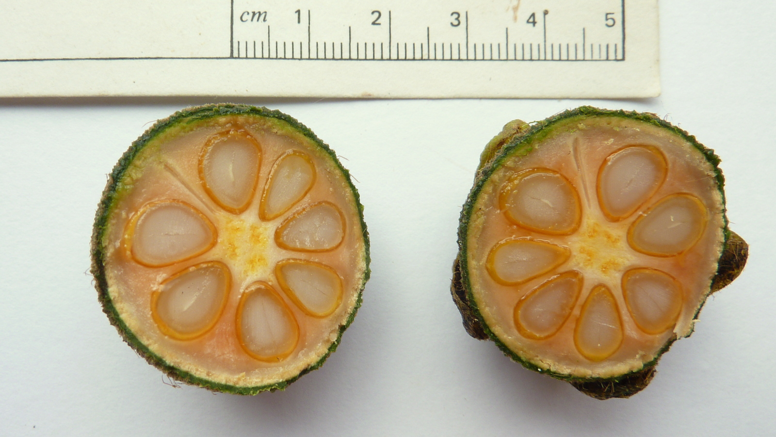 Diospyros gaultheriifolia Mart. ex Miq.